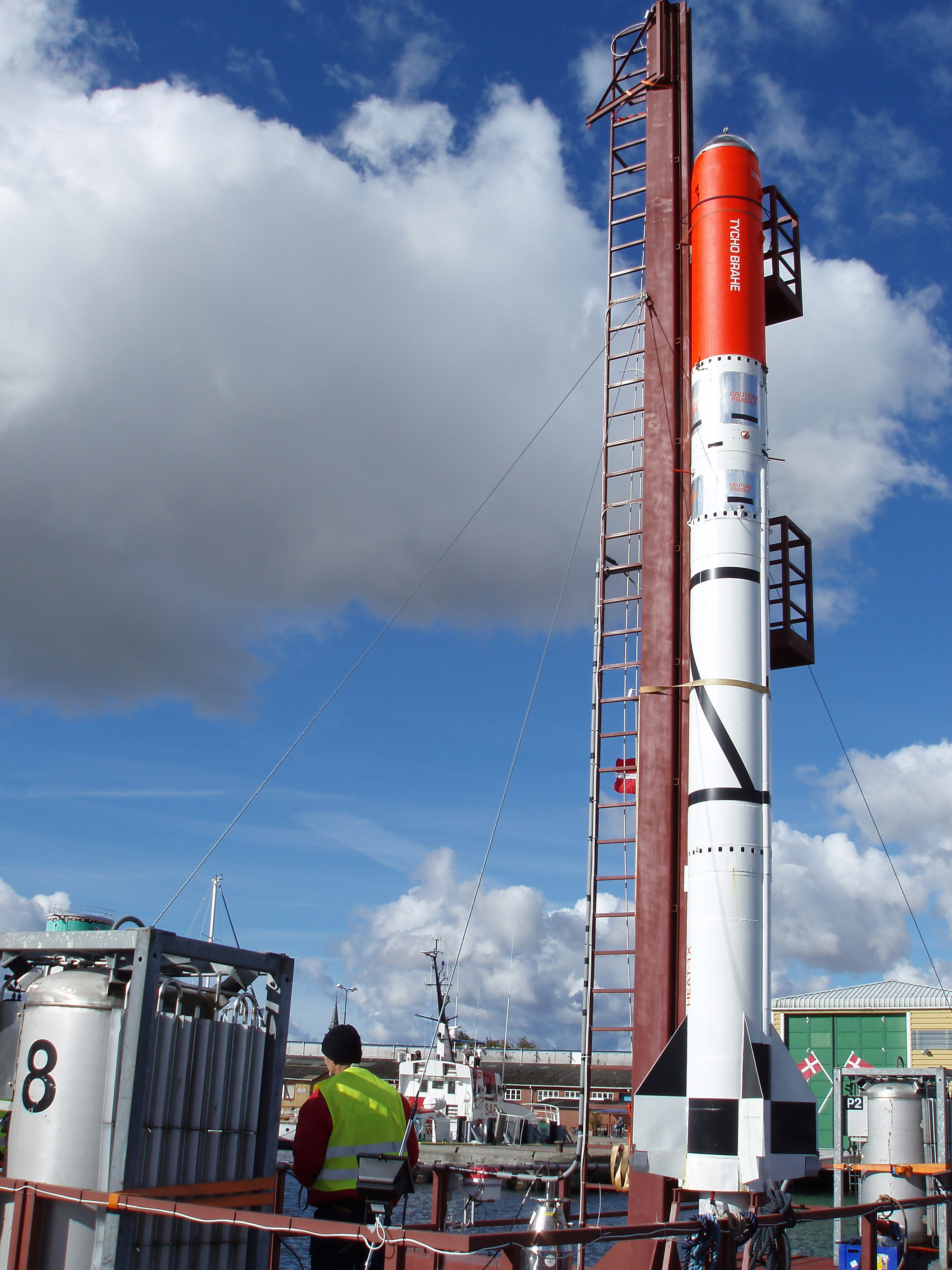 Heat 1X rocket (white) and Tycho Brahe spacecraft (orange) on Sputnik launch platform (maroon) with two grey LOX Dewar tanks; Location: Nexø (Bornholm), Denmark) on September 3rd, 2010. Private project by Copenhagen Suborbitals.